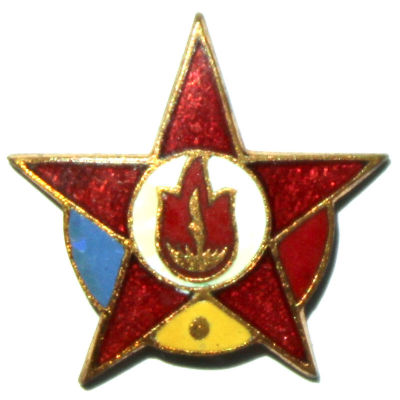 Romanian badge "Distinguished pioneer"